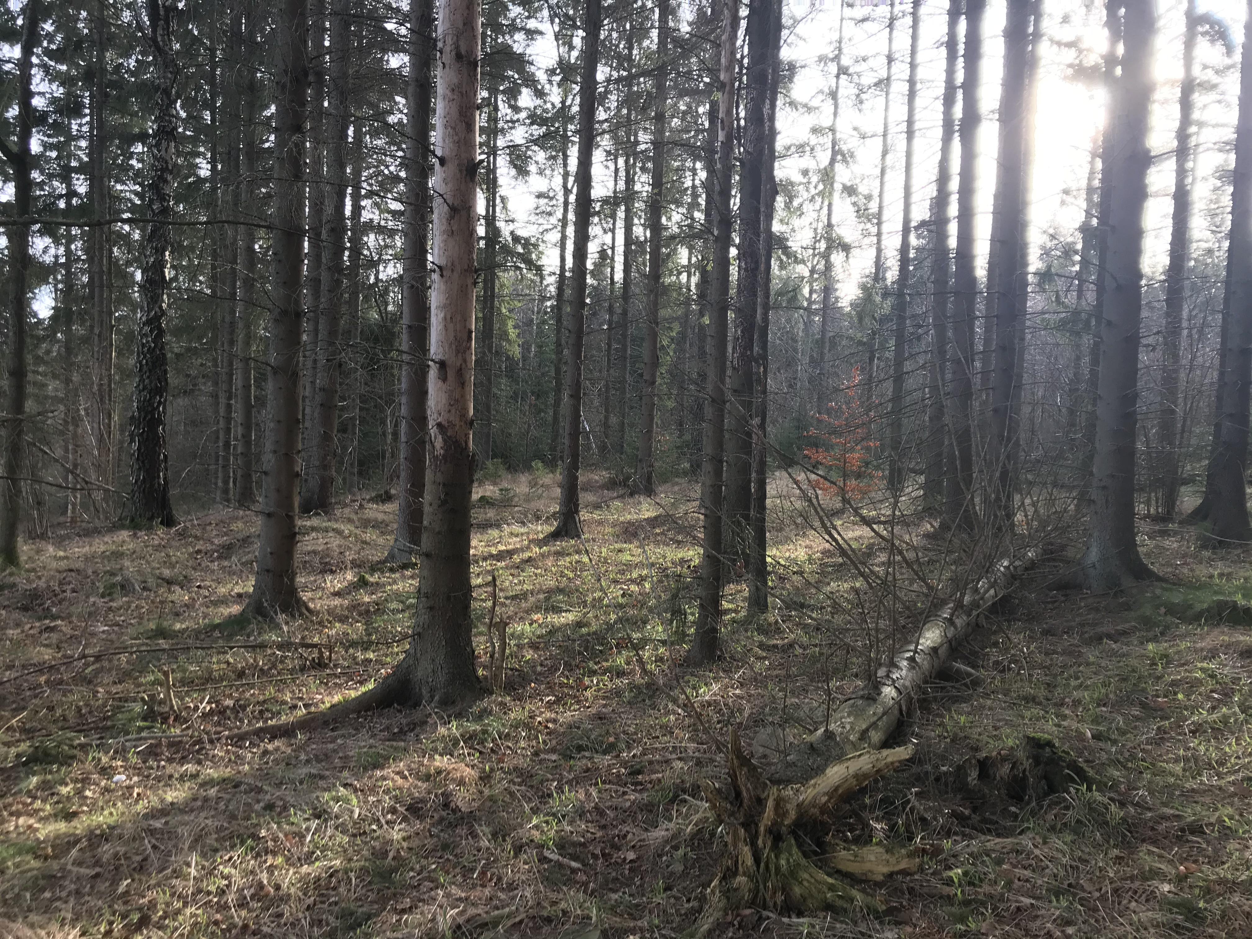 Esso-skogen